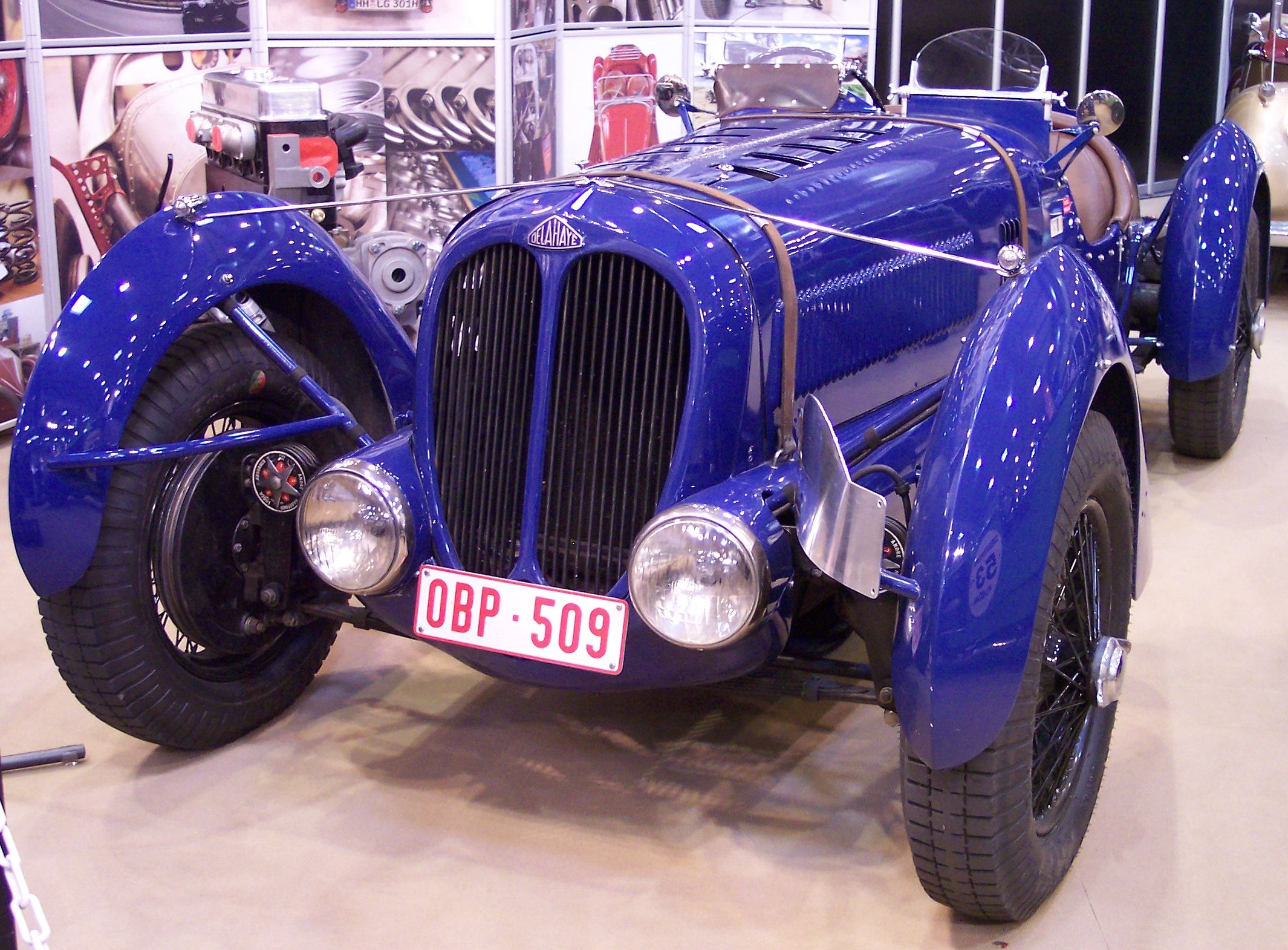 Delahaye 135 M Competition